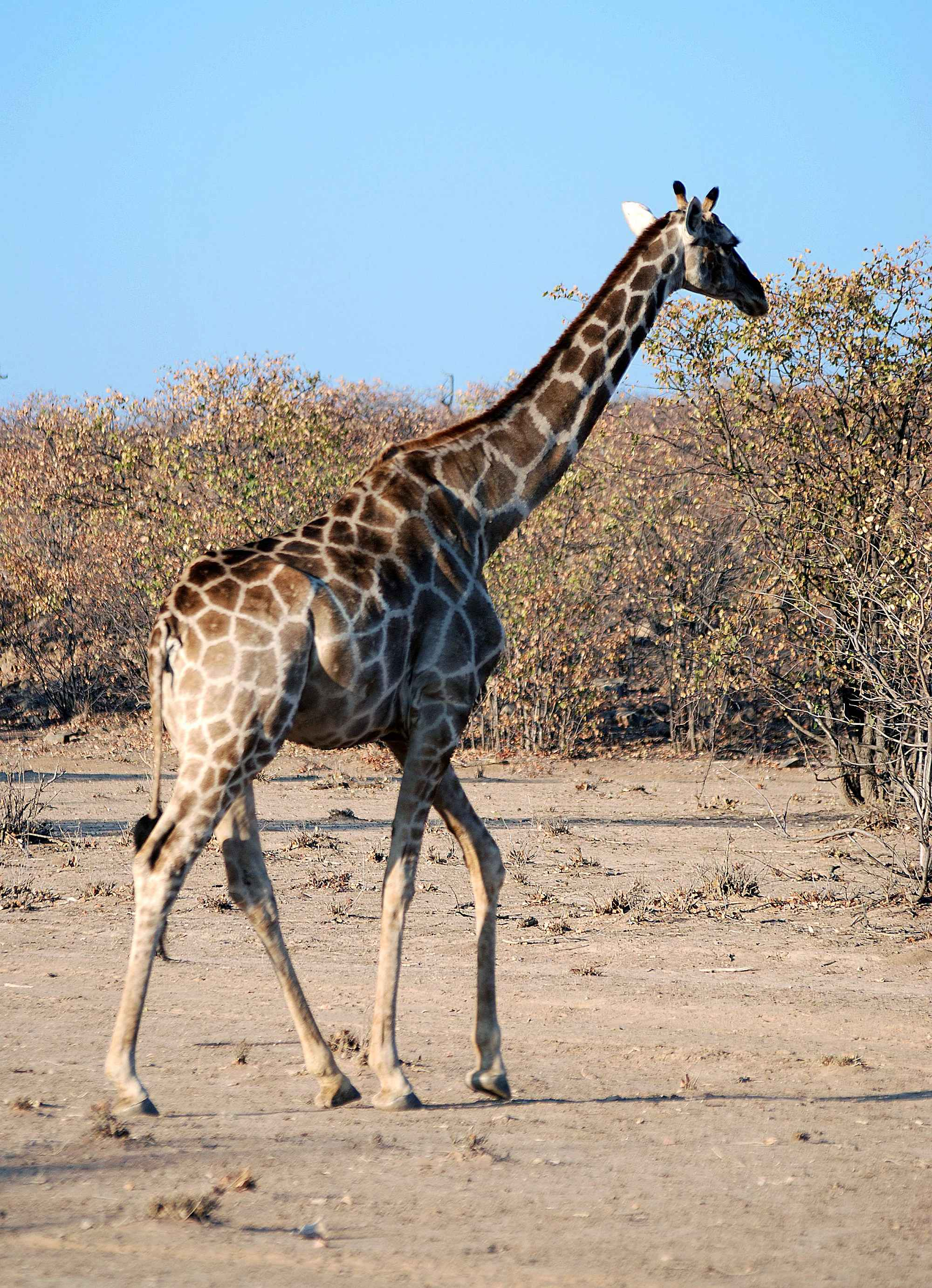 Giraffa camelopardalis angolensis, picture taken in Hobatere Reserve, bordering on Etosha National Park, northern Namibia